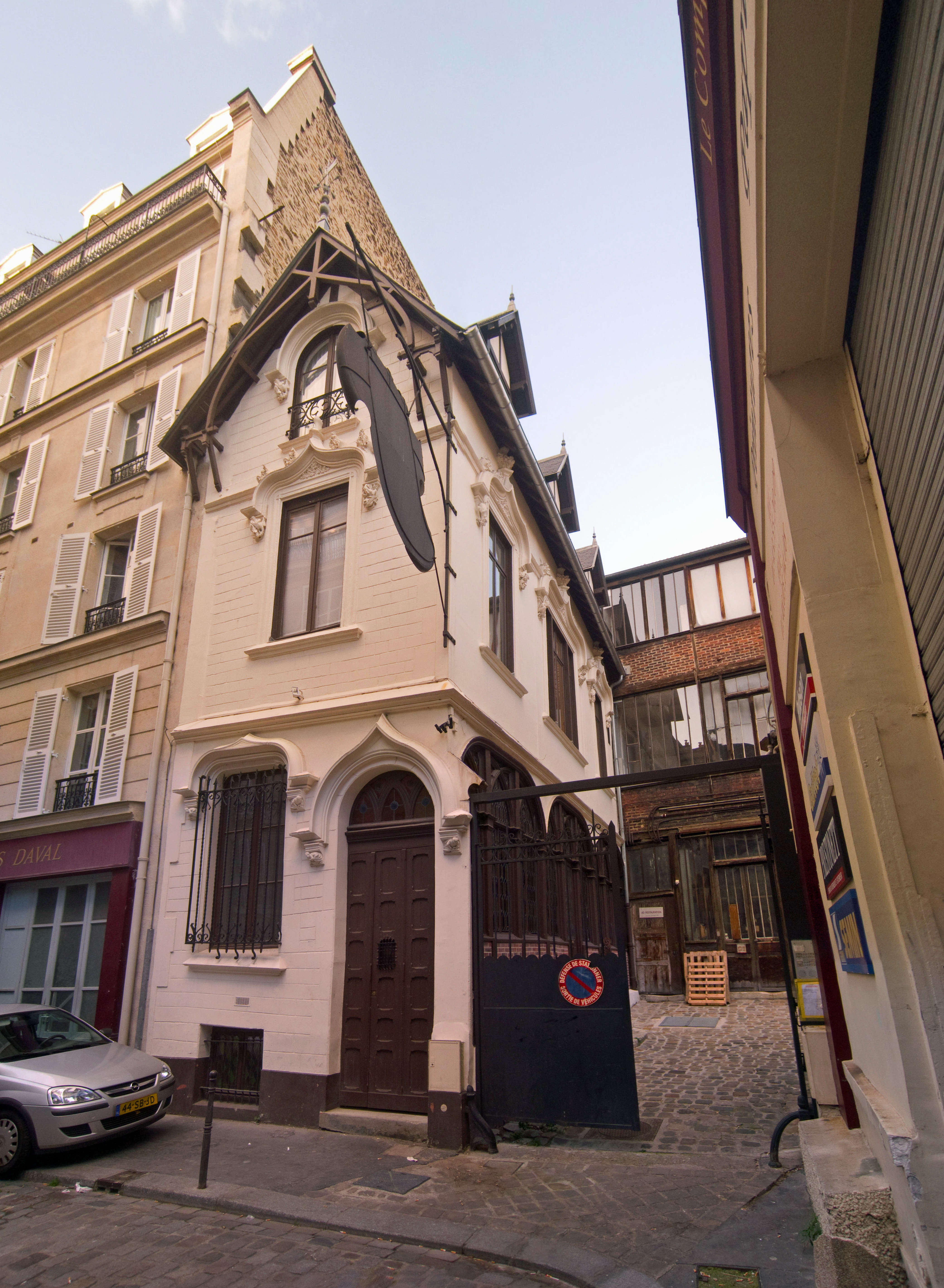 5 cité de la Roquette, Paris XIe arrondissement, France.